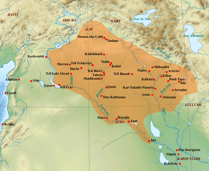 Map of the medio-assyrian kingdom (End of the 13th- beginning of the 11th centuries BC).